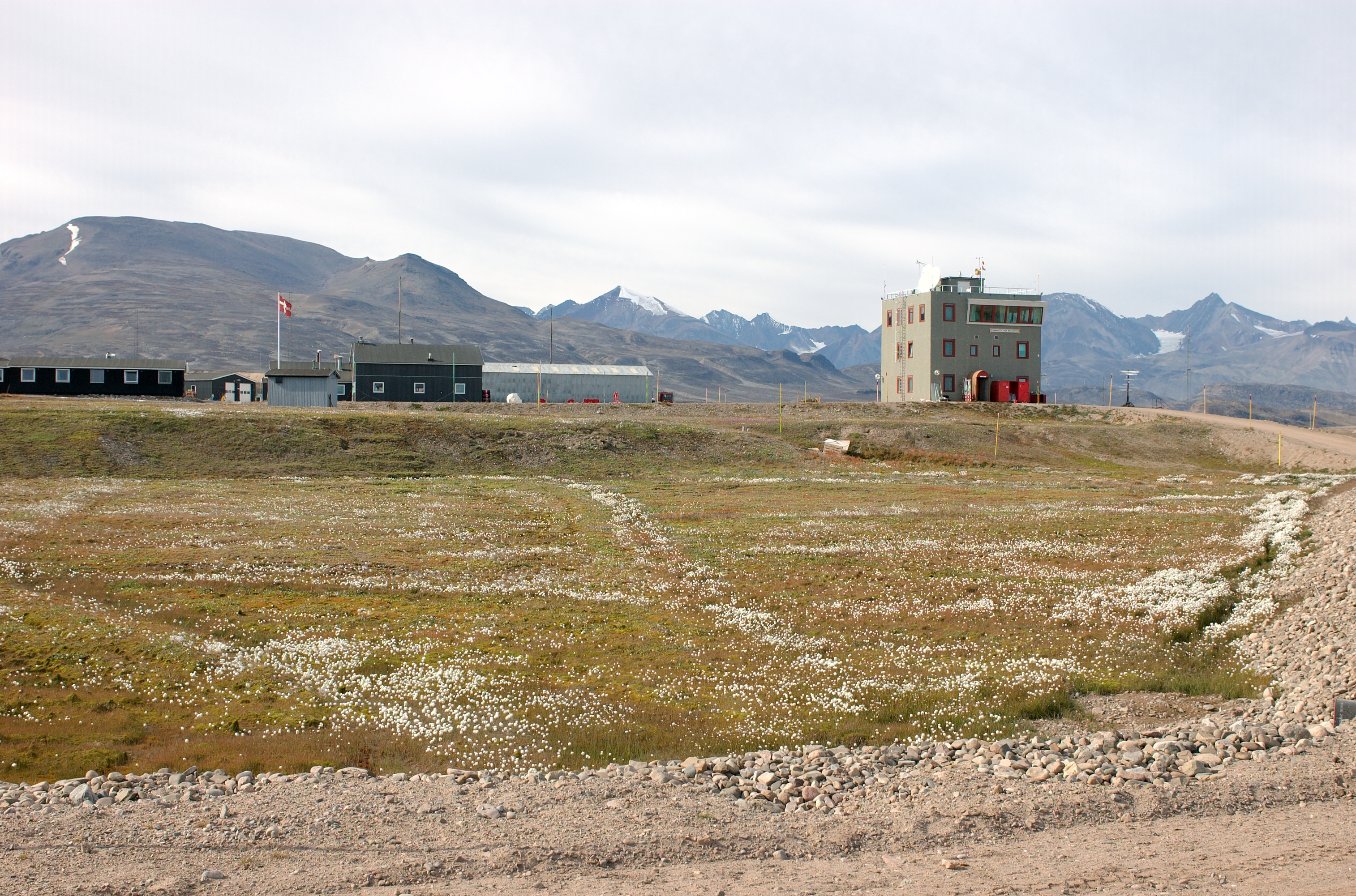 Mestersvig military airport in East Greenland.